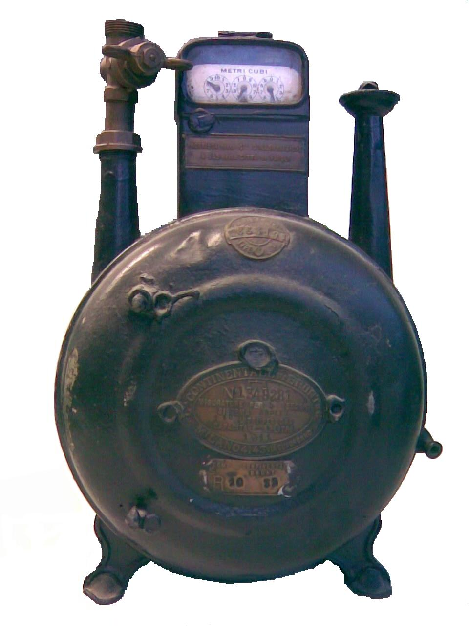 A 1911 diaphragm gas meter